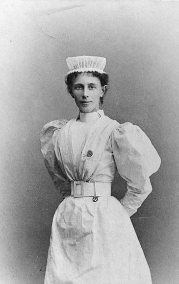 Portrait of Miss Georgina Pope, head nurse of First Canadian Contingent during the Boer war. Possibly in her nurse's uniform from Bellevue Hospital, New York